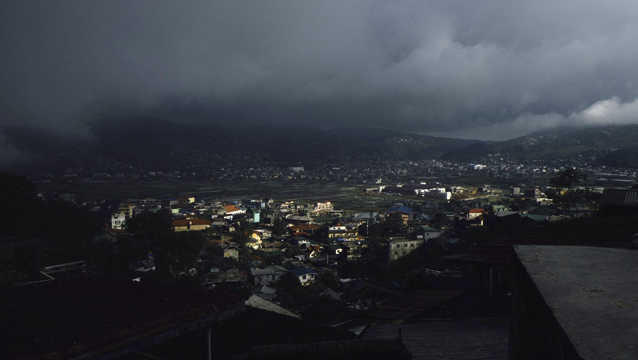 500px provided description: Taken From The Buyagan Public Cemetery Viewpoint [#Landscape ,#Travel ,#Light ,#City ,#Mountains ,#Baguio ,#Benguet ,#Buildings ,#Sunlight ,#Mountain Province ,#Cloudy ,#Vista ,#Afternoon ,#Luzon ,#La Trinidad ,#Buyagan]